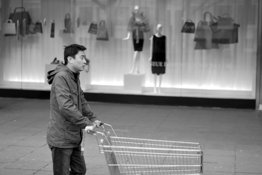 The financial crisis affectes the real economy. I think this photo is a nice example and expresses the whole situation, most of all the reluctance of consumers to spend money.